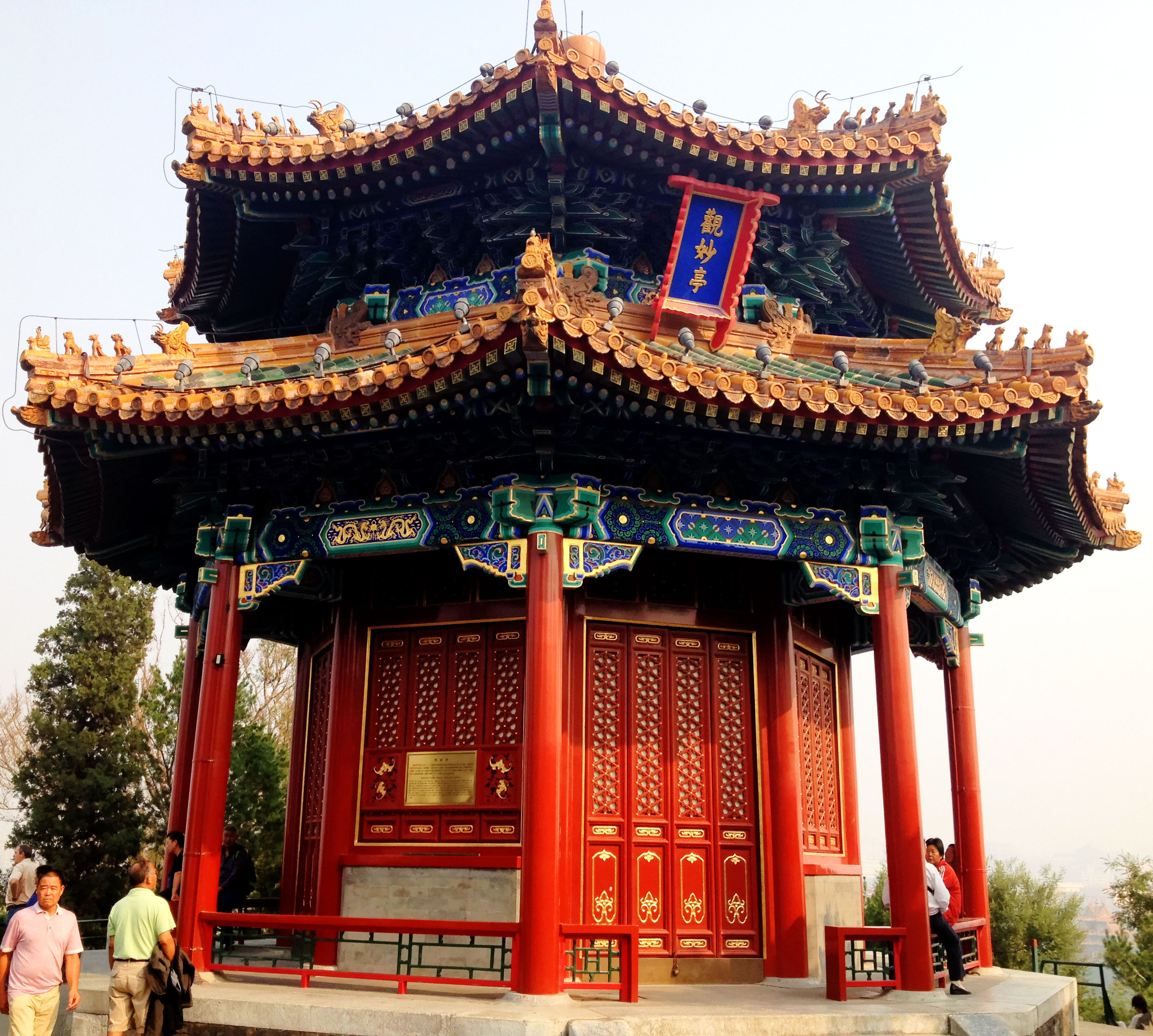 Palaces, avenues, buildings, parks, and scenery around China's Capital A small pavilion/hall in Jingshan Park.